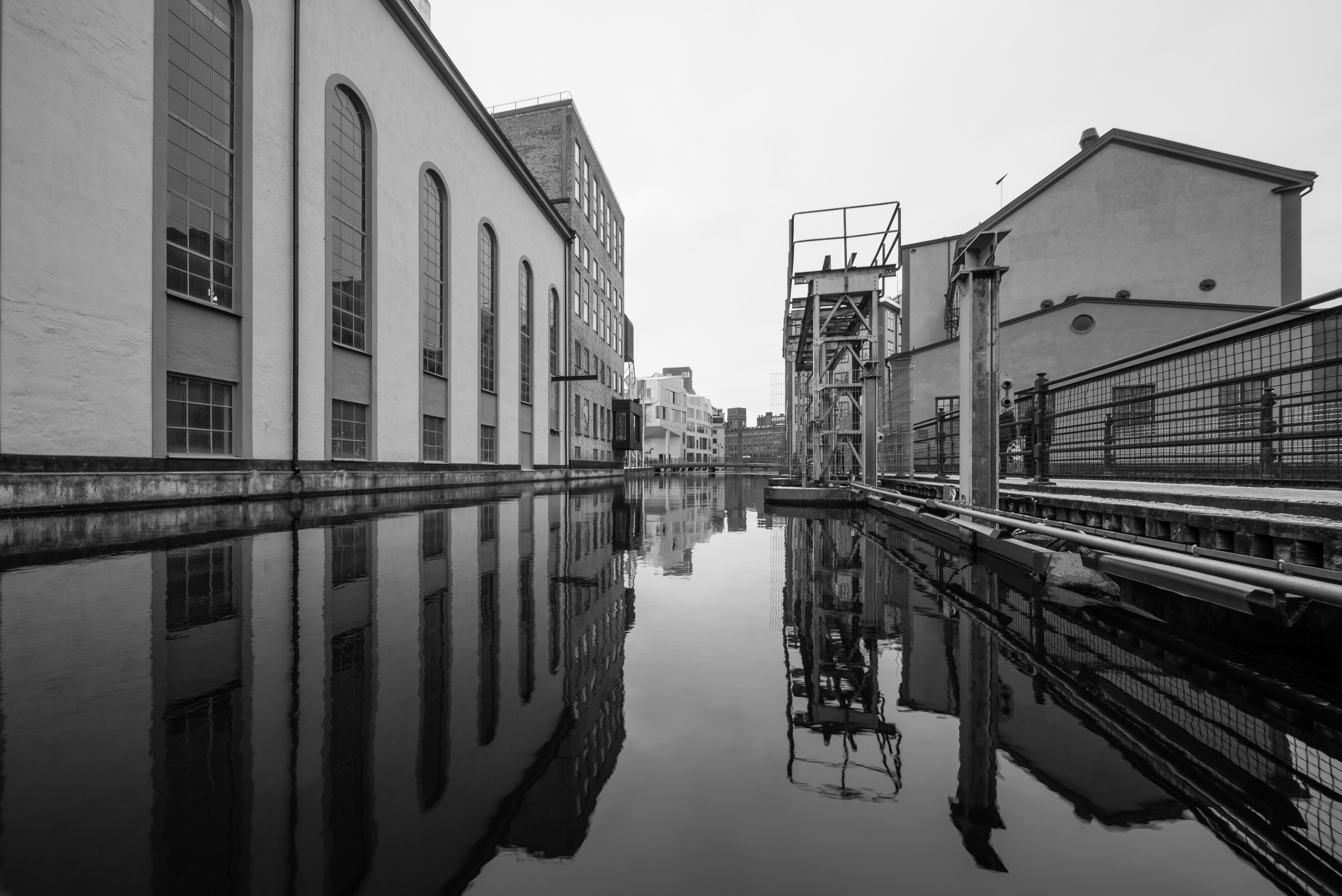 The river Motala ström and the historic industrial district (known as Industrilandskapet) in Norrköping, Sweden. Industrilandskapet is a well-preserved industrial area, the industrial development started in the 17th century and carried on through to the middle of the 20th century, and a number of woollen spinning mills and cotton factories were established.